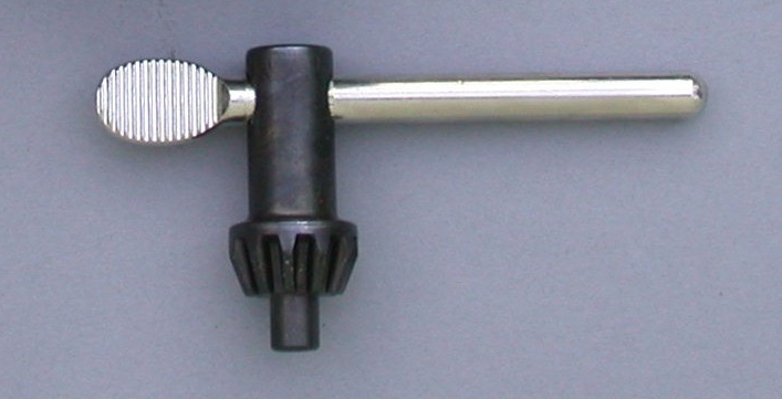 chuck key for a drill chuck.